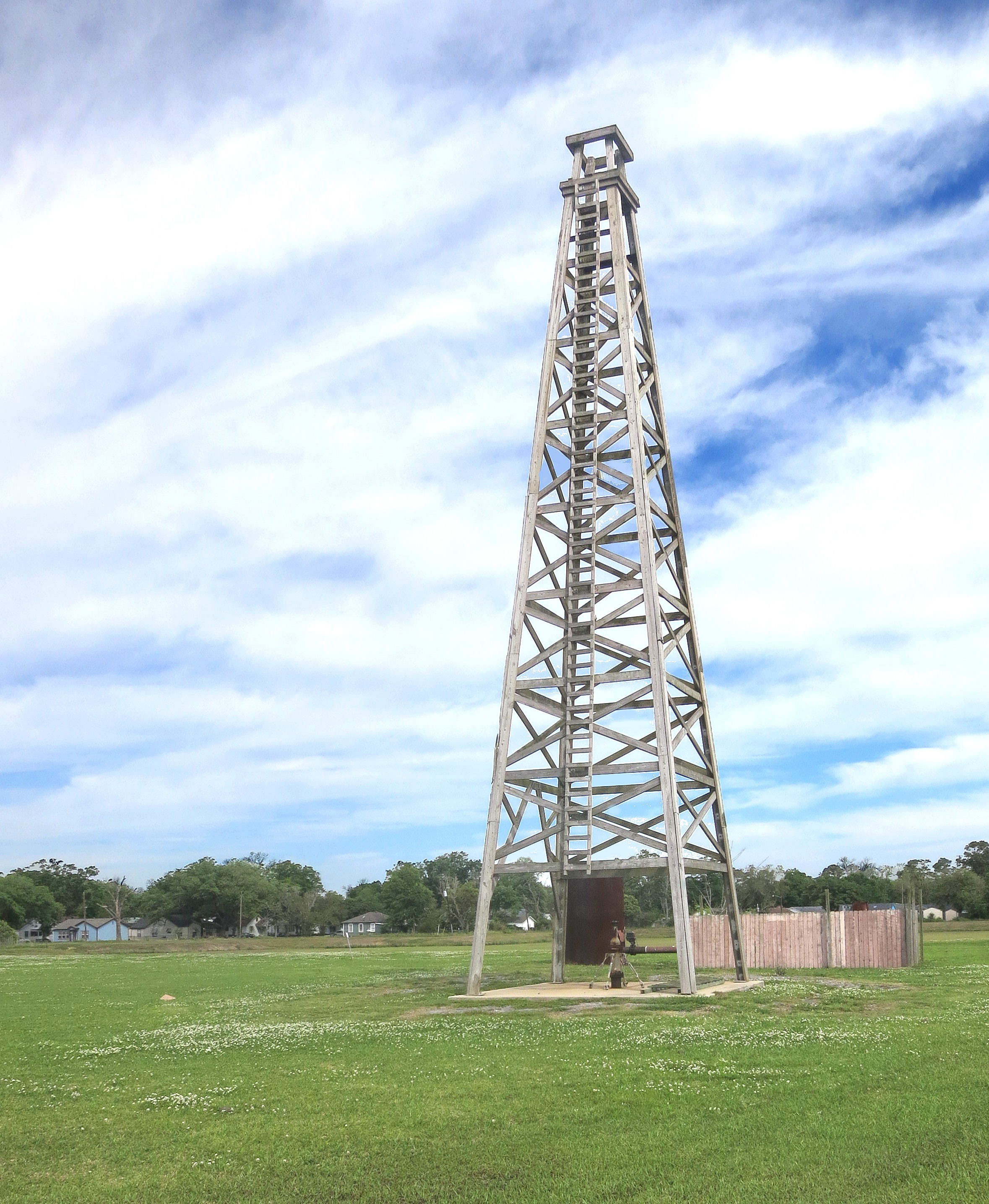 The replica of the famous Spindletop gusher is not located at Spindletop Park, rather it is at Gladys City 1.5 miles away. There is a museum, monument and somehow got the historical marker moved to this place. I don't know the schedule but periodically they shoot a stream of water up and out the top to simulate a gusher.